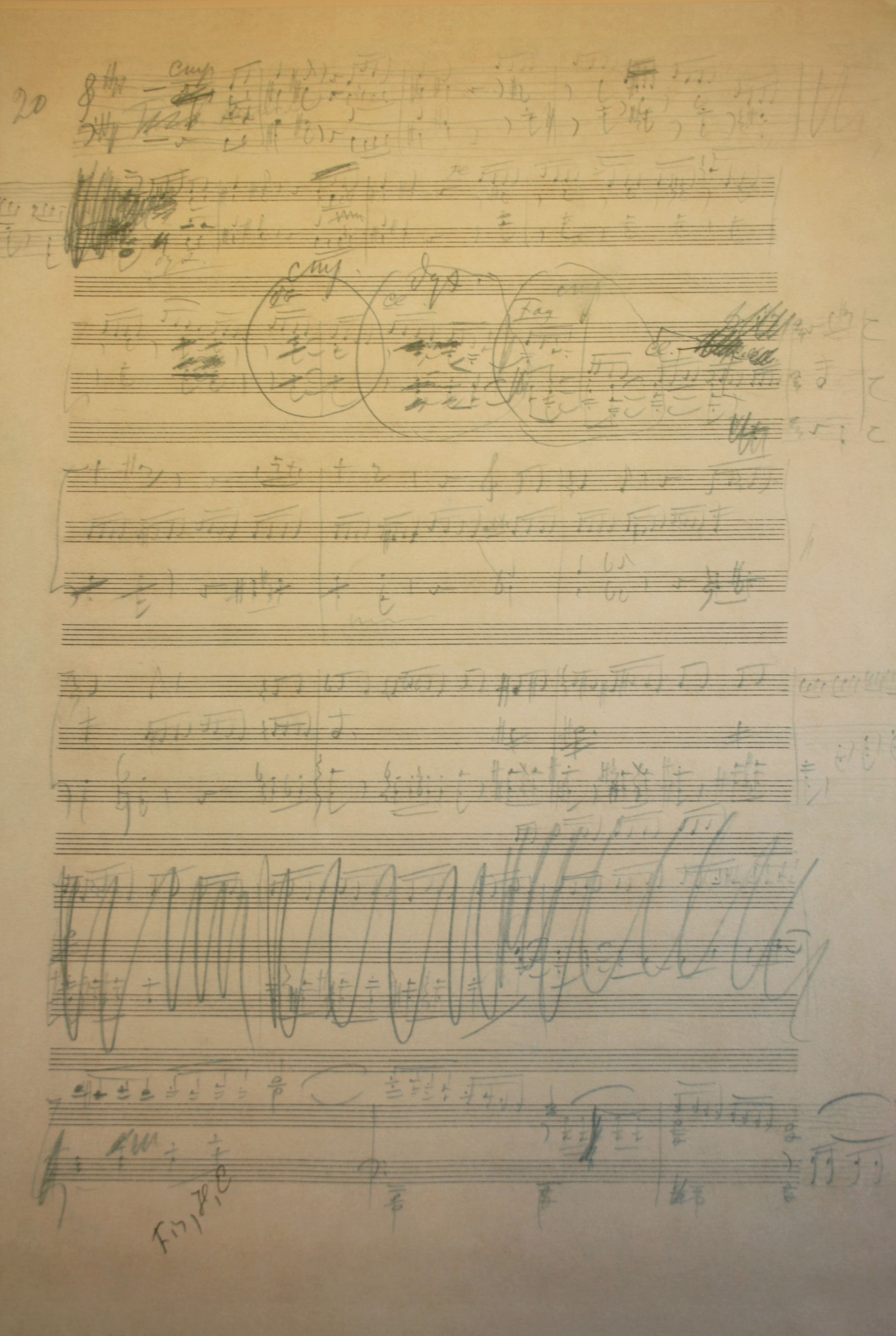 Music aficionados always have strong opinions on Tchaikovsky. Love him or hate him, you gotta feel for the frustration here in this draft of his Symphony no. 6.